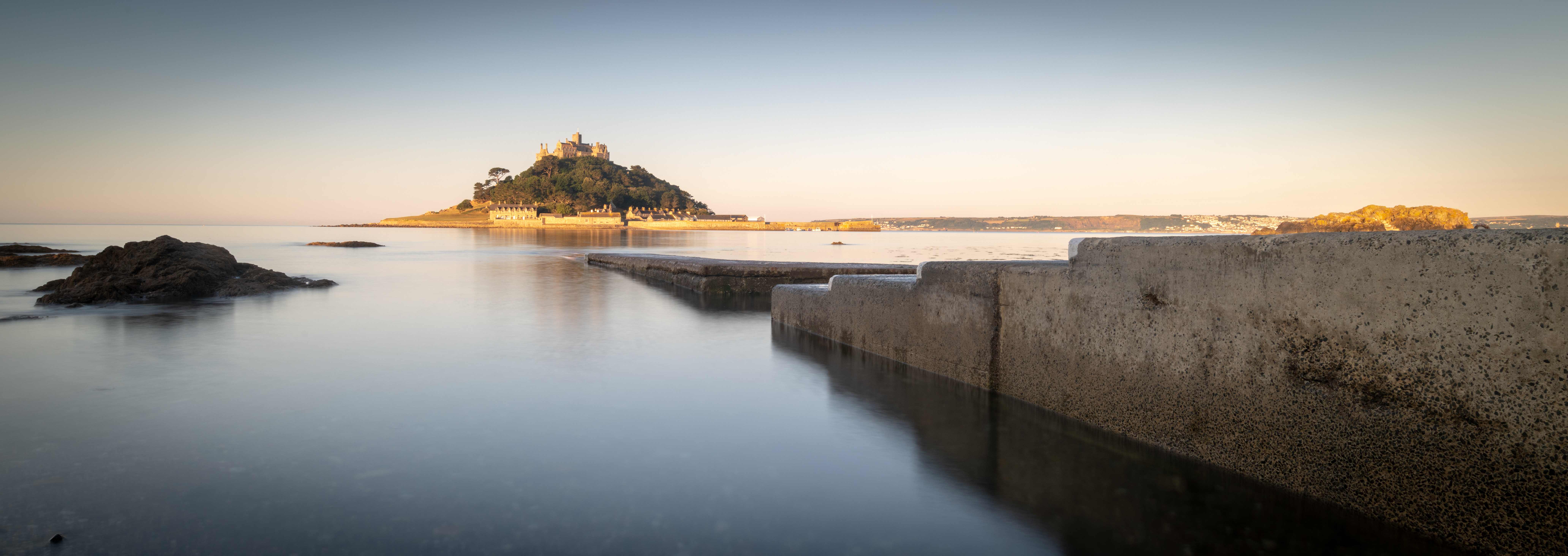 St. Michael's Mount in Cornwall